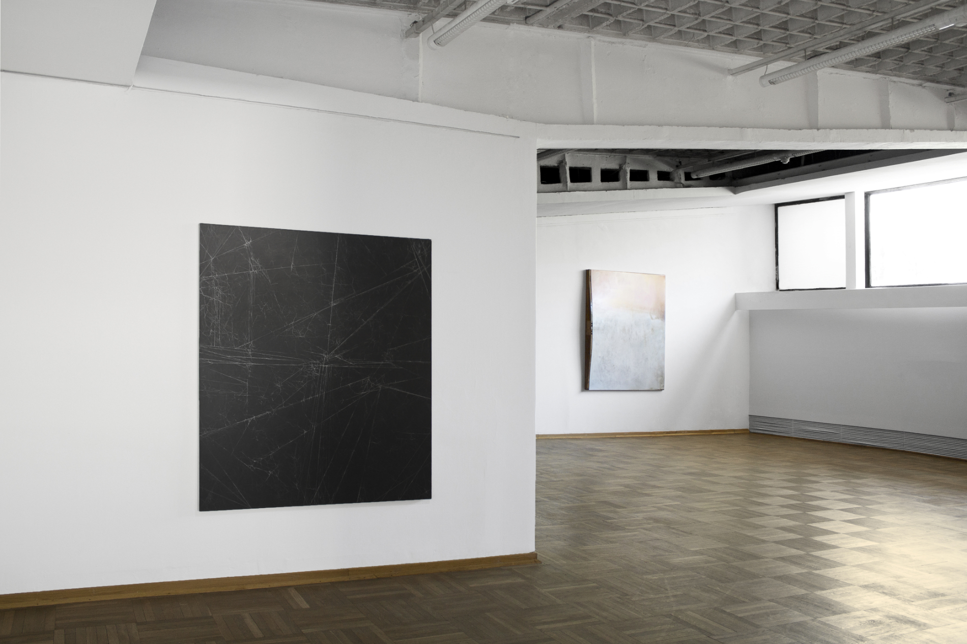 Adrian Kolerski, Domestic Animals, group show, Bunkier Sztuki Gallery of Contemporary Art, curator: Marta Lisok